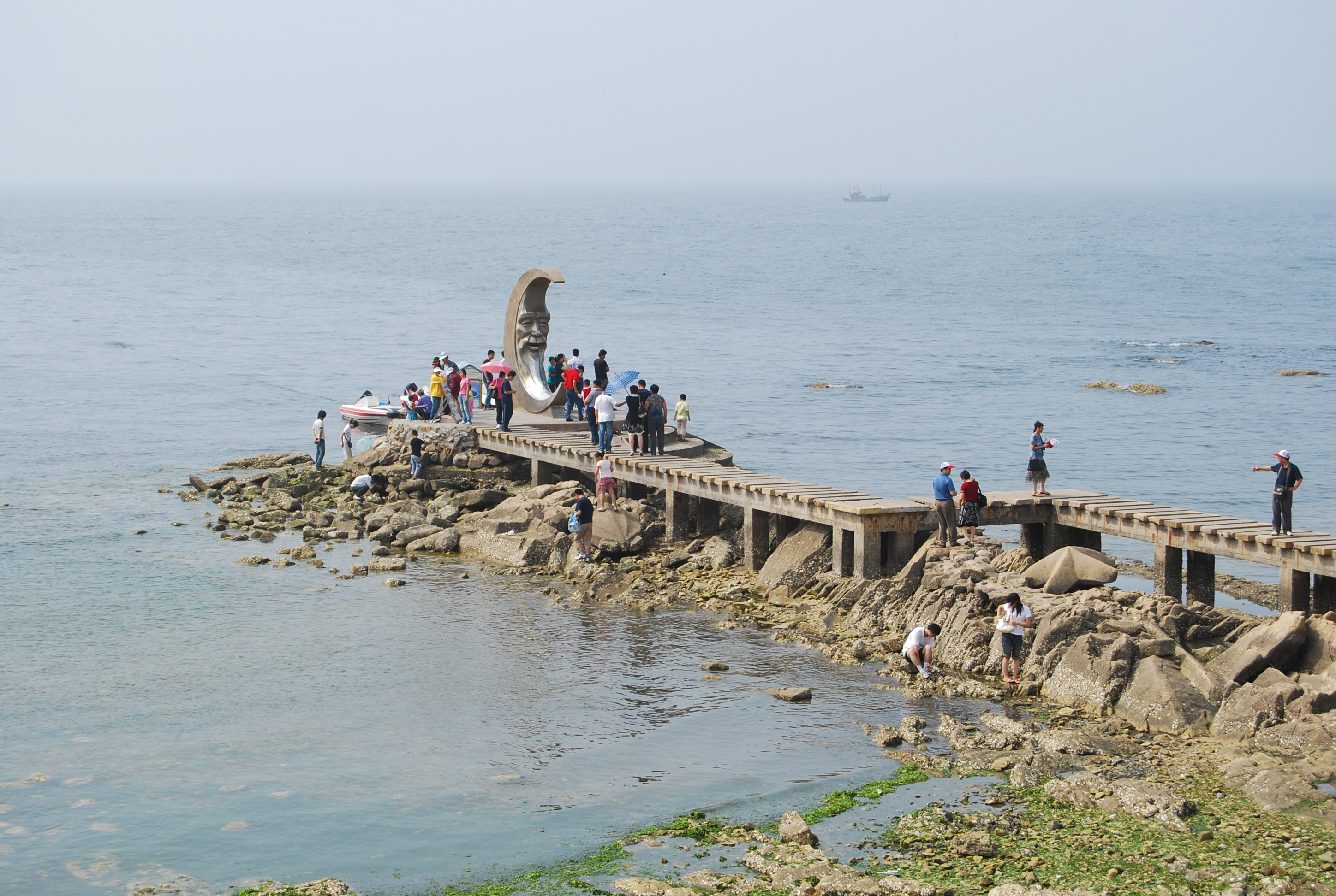 The statue of Moon in Moon Bay, Yantai, Shandong